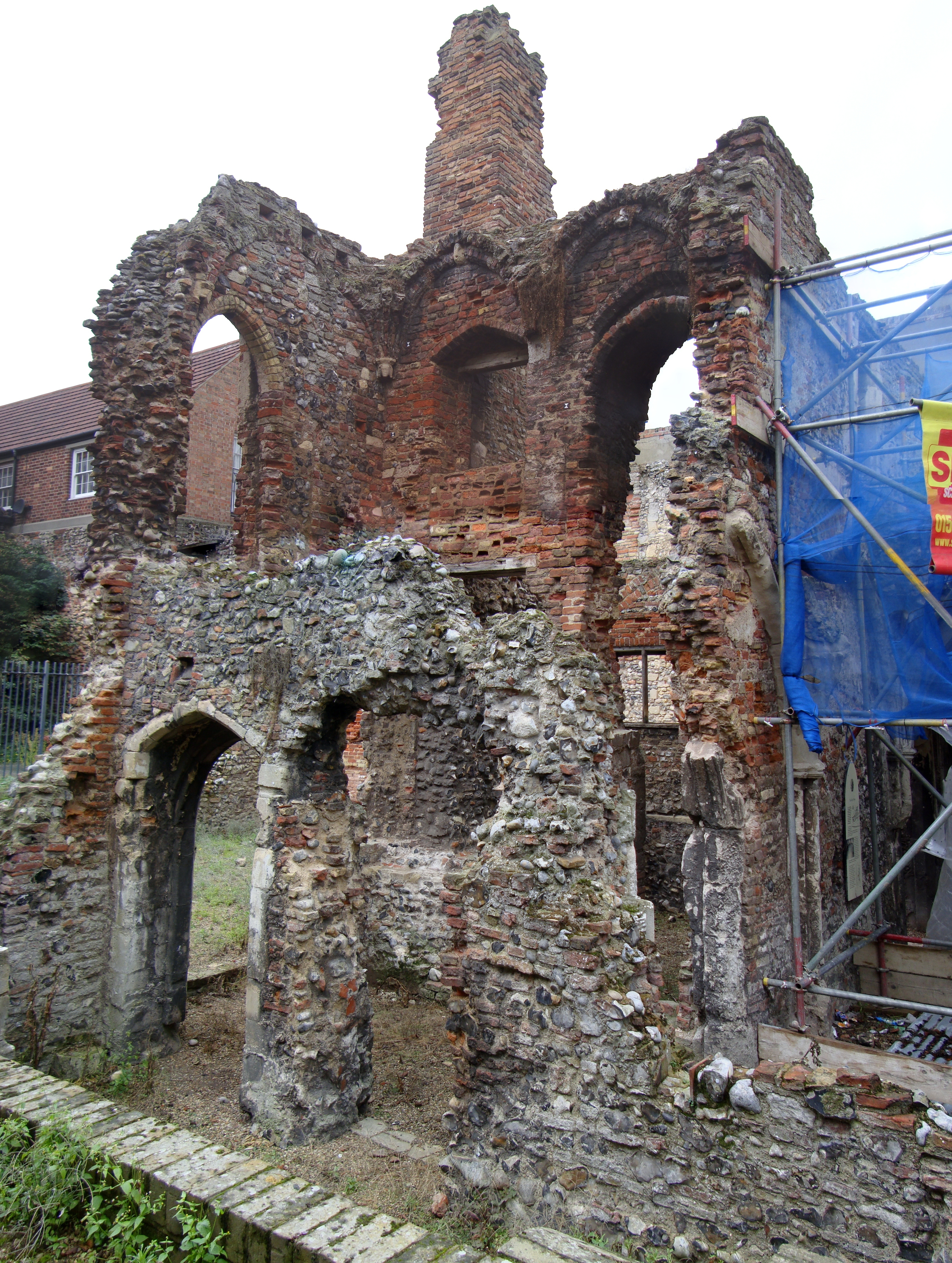 Composite photograph of Great Yarmouth Greyfriars